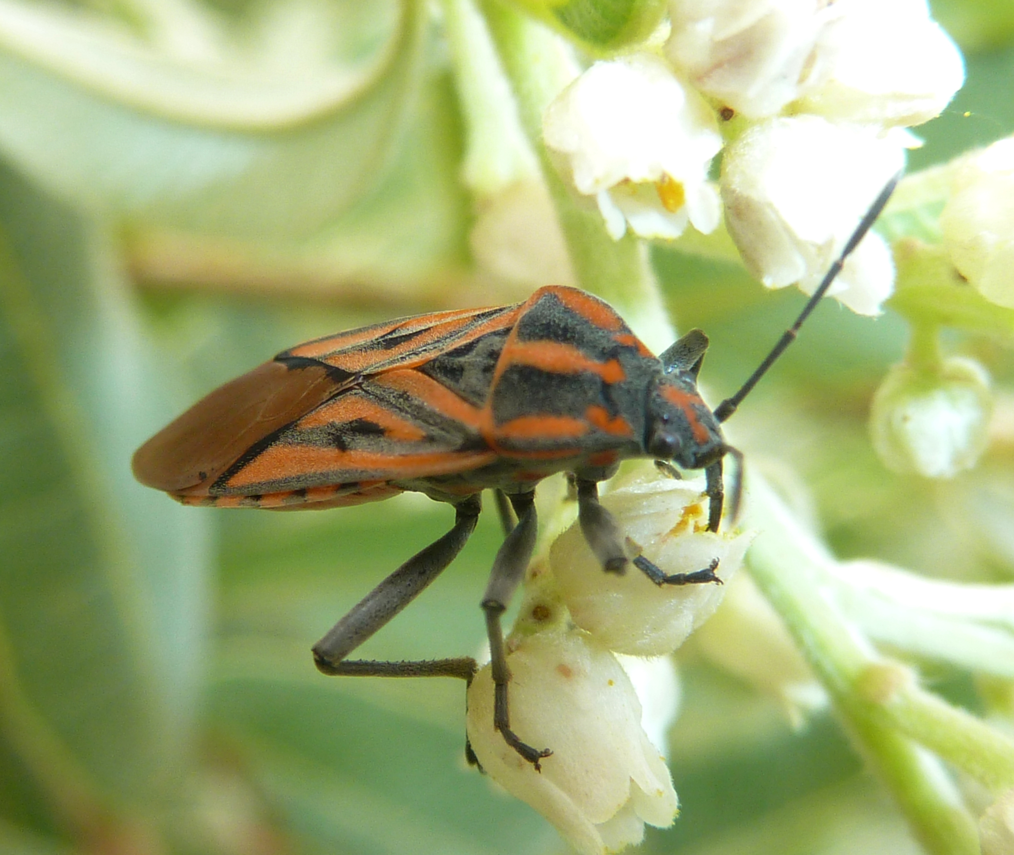 Milkweed bug feeding at the flower of a Resin tree (Ozoroa paniculosa) in the Roodeplaat Nature Reserve near Pretoria